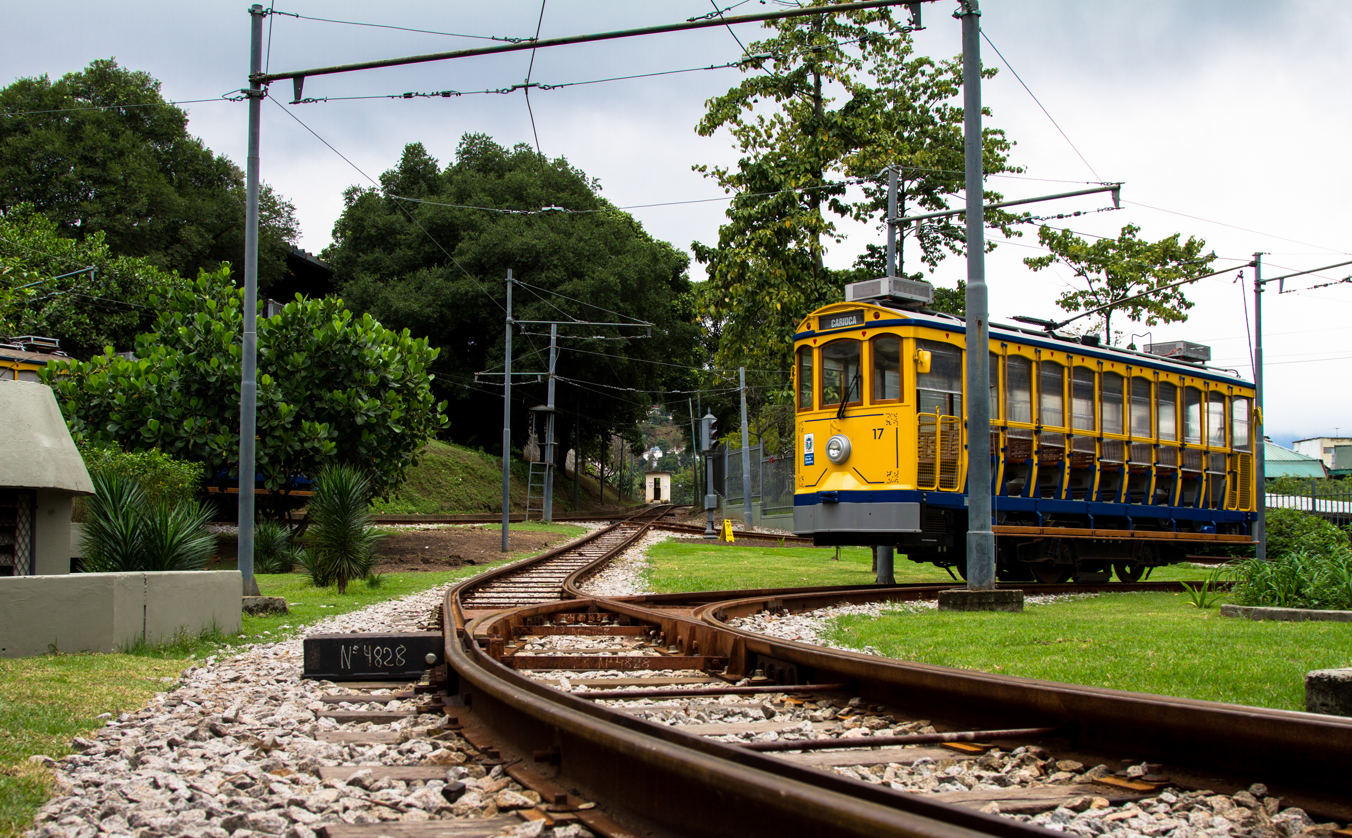 Car 17 of Rio de Janeiro's Santa Teresa tramway, a newly built replica of one the line's now-withdrawn vintage trams, sitting on a storage track at the Carioca terminal loop in September 2015.